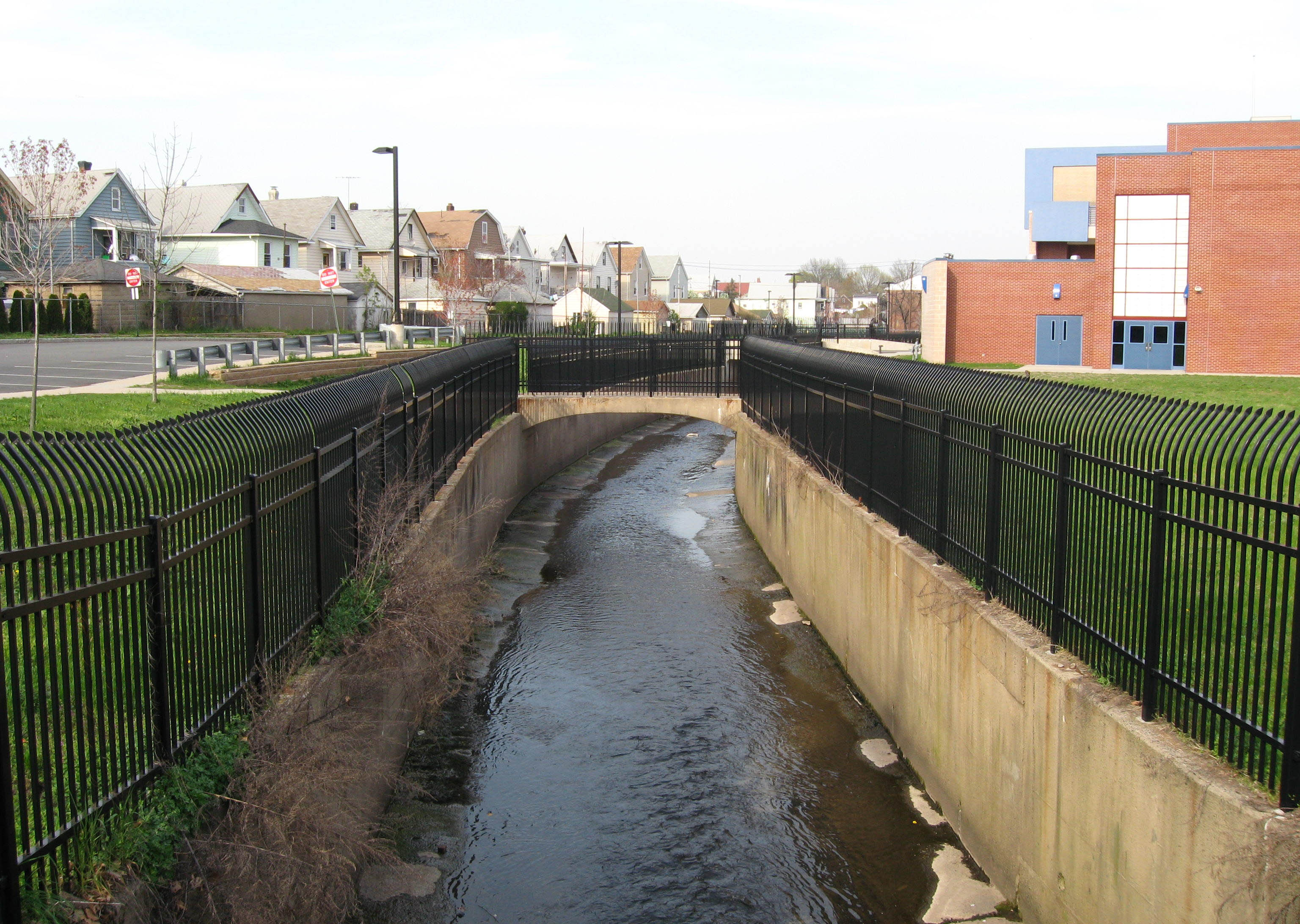 Channelized Weasel Brook flows northeast from Central Avenue bridge in Passaic, NJ towards Passaic River.